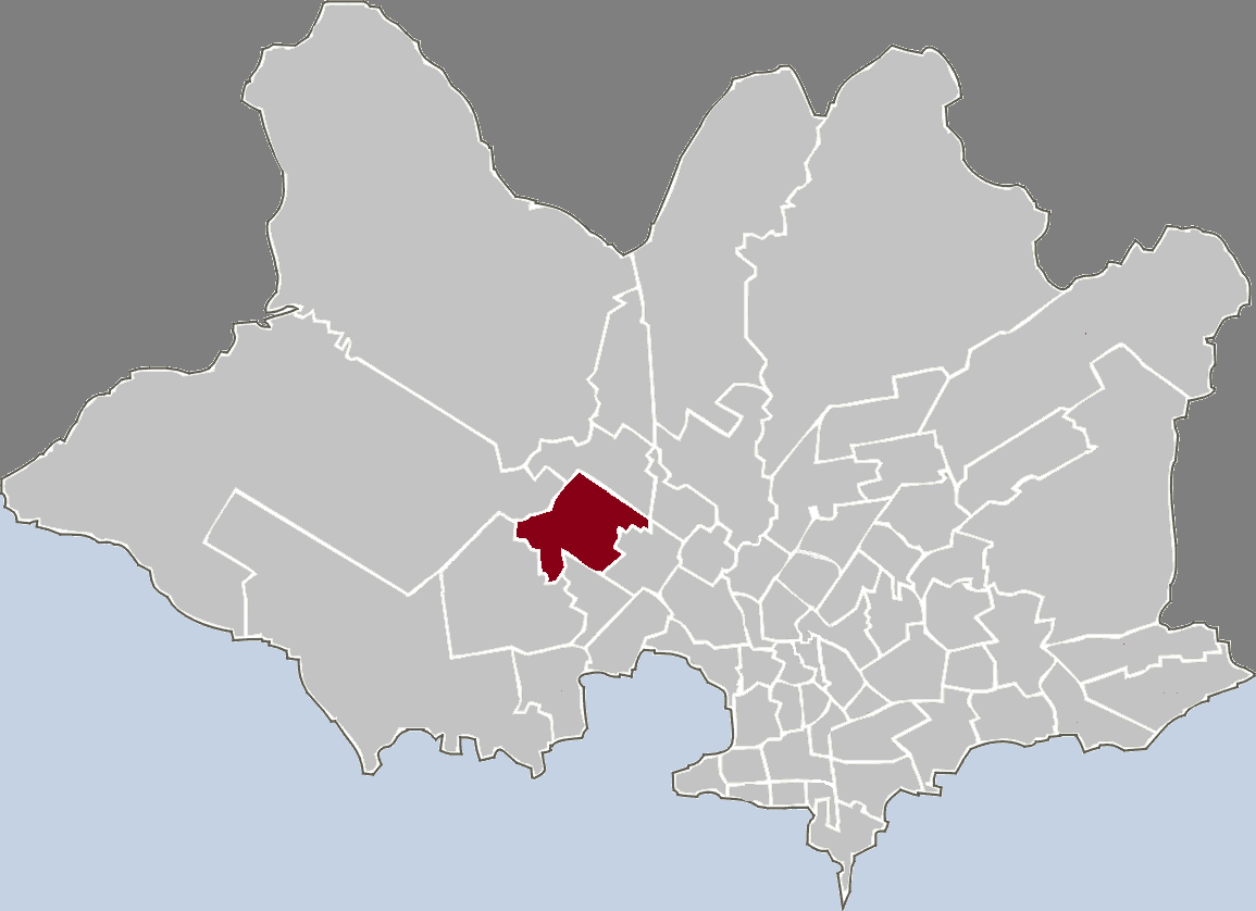 Map highlighting the given barrio in Montevideo.